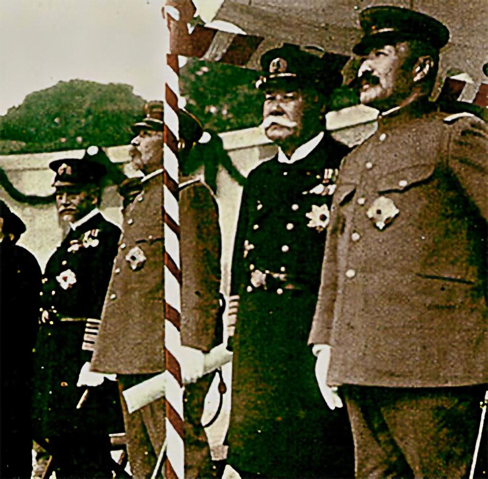 L-to-R: Marshal Admiral of the Navy Count Heihachirō Tōgō (1848–1934), Marshal General of the Army Count Yasutaka Oku (1847–1930), Marshal Admiral of the Navy Viscount Yoshika Inoue (1845–1929), Marshal General of the Army Viscount Kageaki Kawamura (1850–1926), at the unveiling ceremony of bronze statue of Marshal General of the Army Prince Iwao Ōyama (1842–1916).